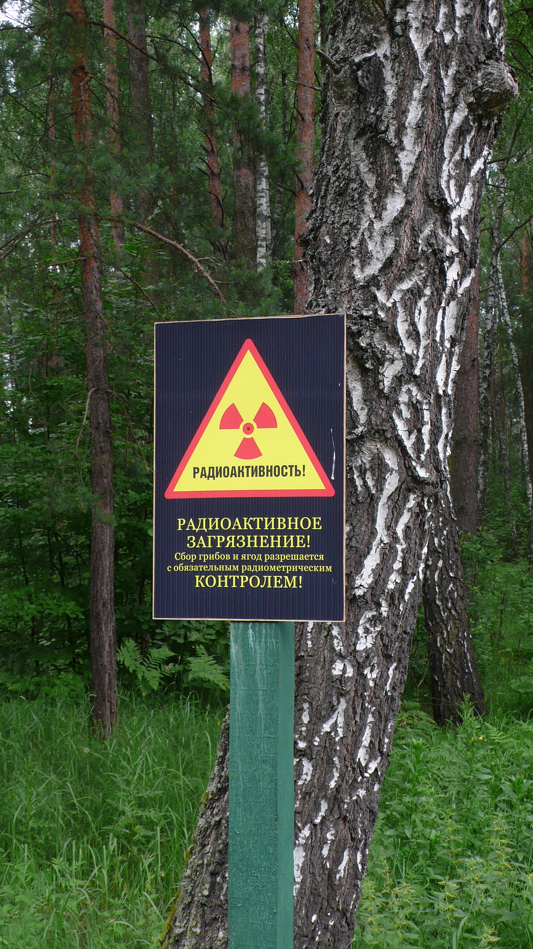 Warnung Radioaktivität Belarus